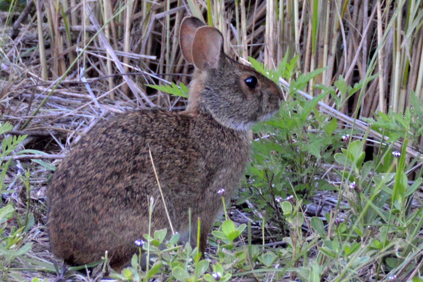 Sylvilagus palustris (Marsh Rabbit) from Sanibel Island (Florida).